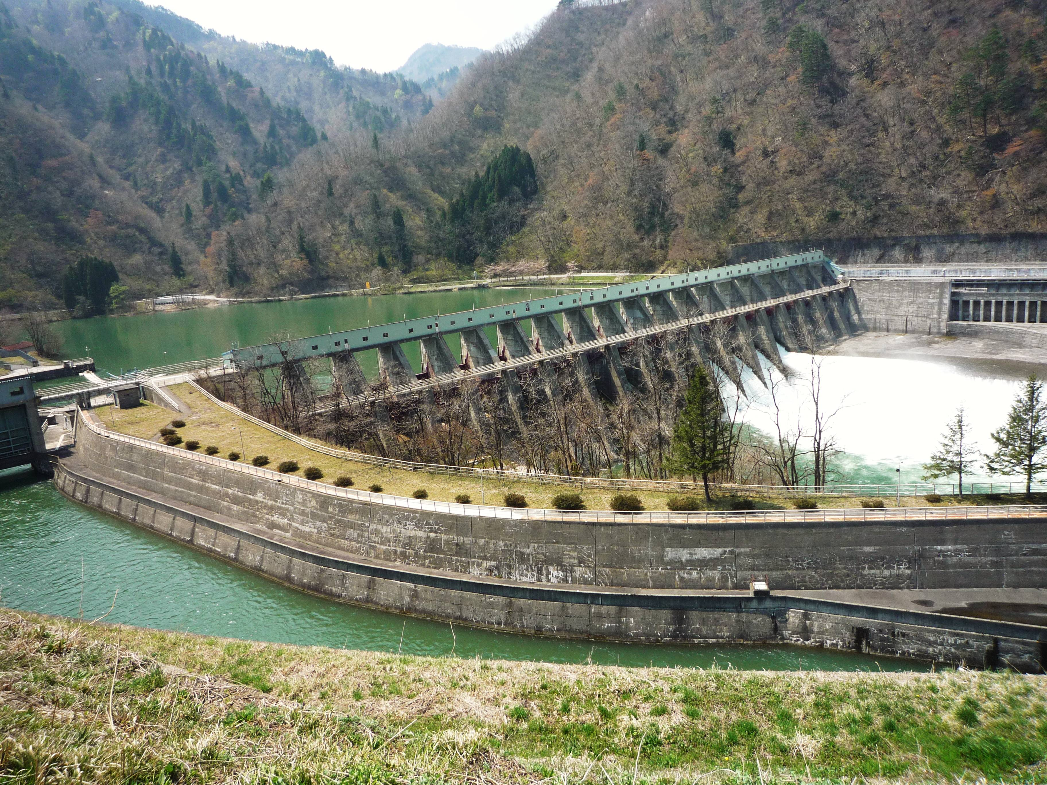 Toyomi Dam.